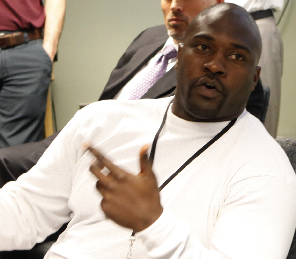 "Former NFL all-pro defensive tackle Marcellus Wiley and now ESPN NFL Live analyst speaks with some of the Cadets who toured ESPN March 31,2010, during the production meeting of NFL Live. Photo by Tommy Gilligan/PV" This file has been extracted from another file: Marcellus Wiley 2010.jpg